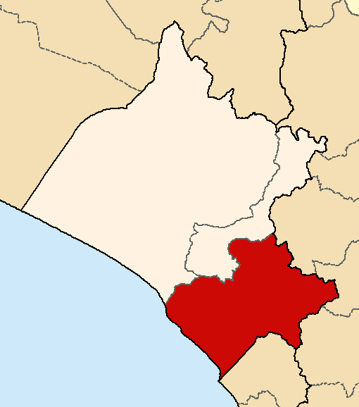 Location of the province Chiclayo in the Lambayeque region in Peru (Map)